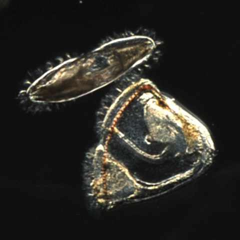 snapshot of two cyphonautes in side and apical view